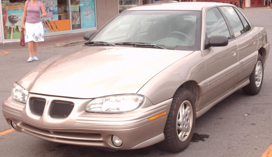 1996-1998 Pontiac Grand Am photographed in Montreal, Quebec, Canada.